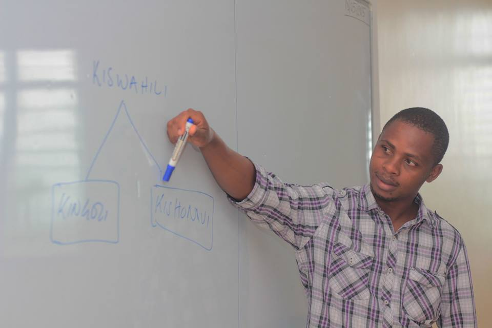 Kiswahili is our national Language. I have passion in teaching such a growing African Language to the young Africans. Language is one of the most important identity of any community. Swahili is our pride language and I feel that I have a very big responsibility to preserve it for the future generation. Here I was teaching High school students (Advanced Secondary Students) who are prepared for colleges. This is an image of "African people at work" from Tanzania